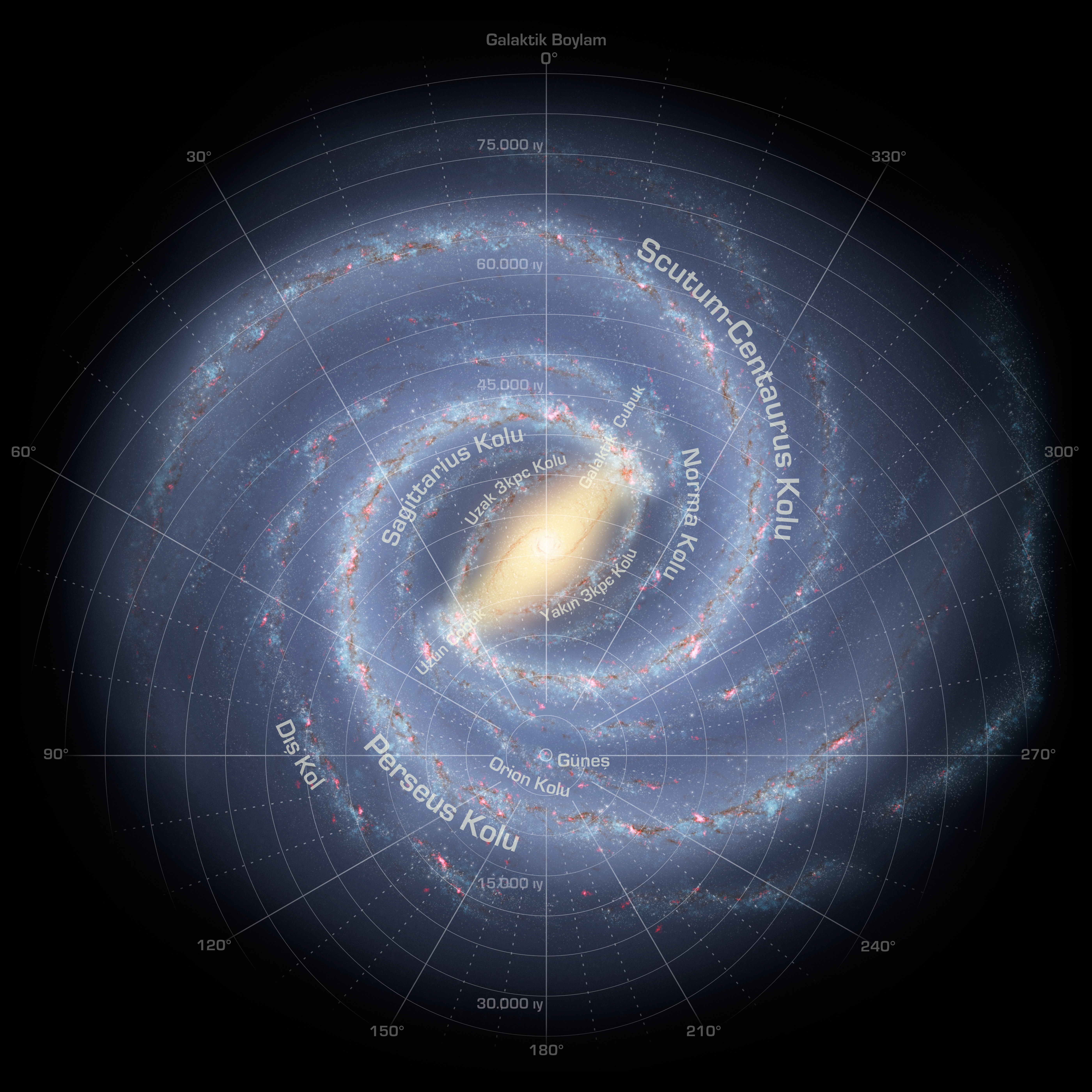 Using infrared images from NASA's Spitzer Space Telescope, scientists have discovered that the Milky Way's elegant spiral structure is dominated by just two arms wrapping off the ends of a central bar of stars